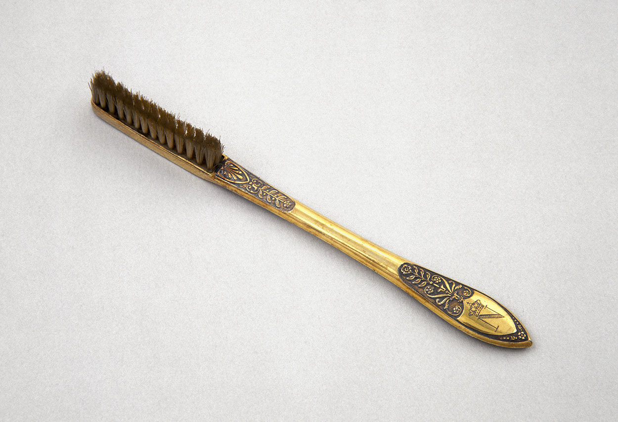 This toothbrush with a silver gilt handle was made for Emperor Napoleon Bonaparte (1769-1821) of France. The Chinese are credited with inventing the use of toothbrushes and toothpastes, although the ancient Egyptians used branches with frayed ends to clean their teeth. In the West, the use of toothbrushes began to be promoted by French dentists in the late 17th and early 18th centuries. It belonged to the collection of Henry Wellcome.